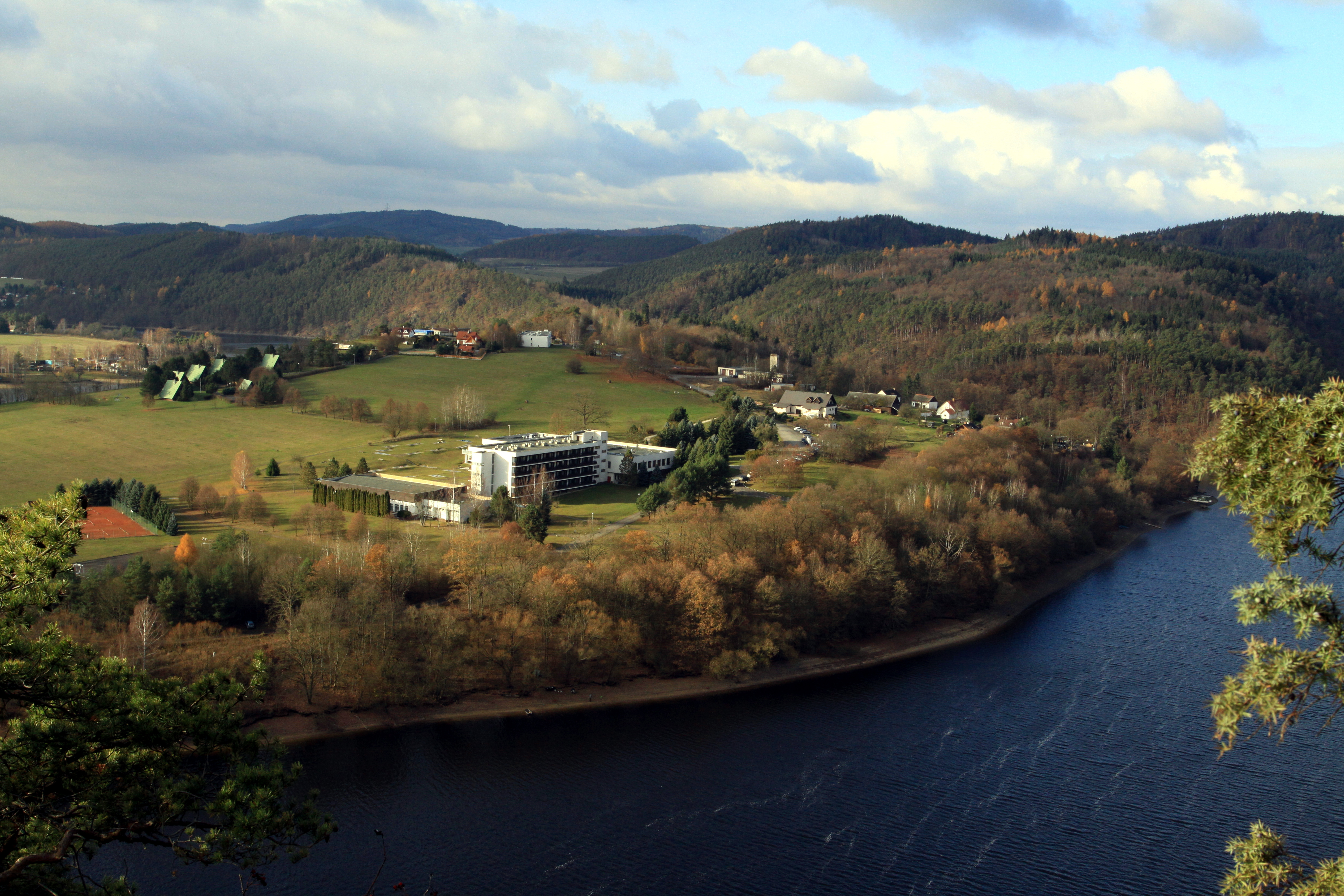 Smilovice village from national nature reserve Drbákov - Albertovy skály in Příbram District, Czech Republic